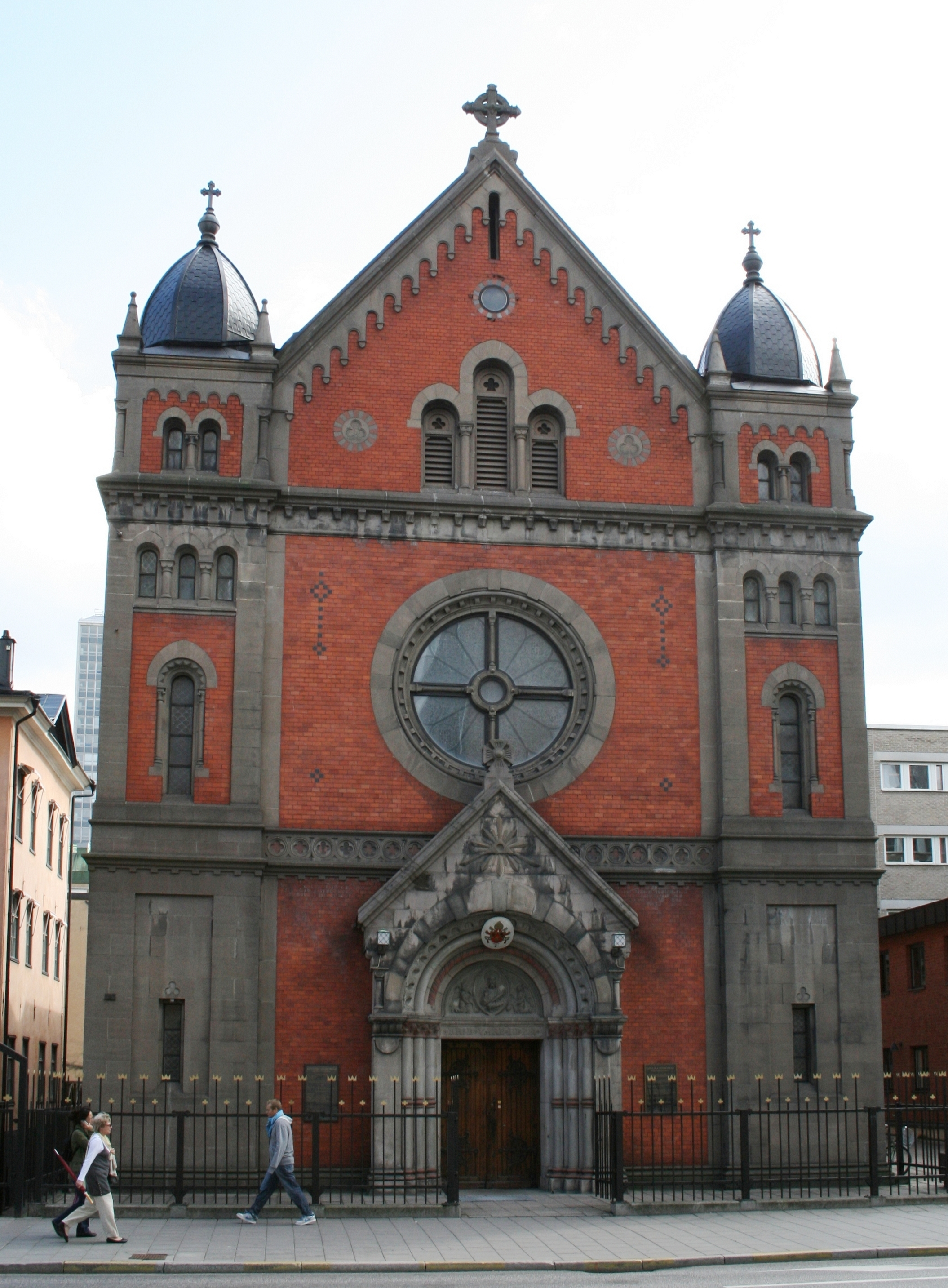 Saint Eric's Cathedral, Stockholm, (Catholic Cathedral)